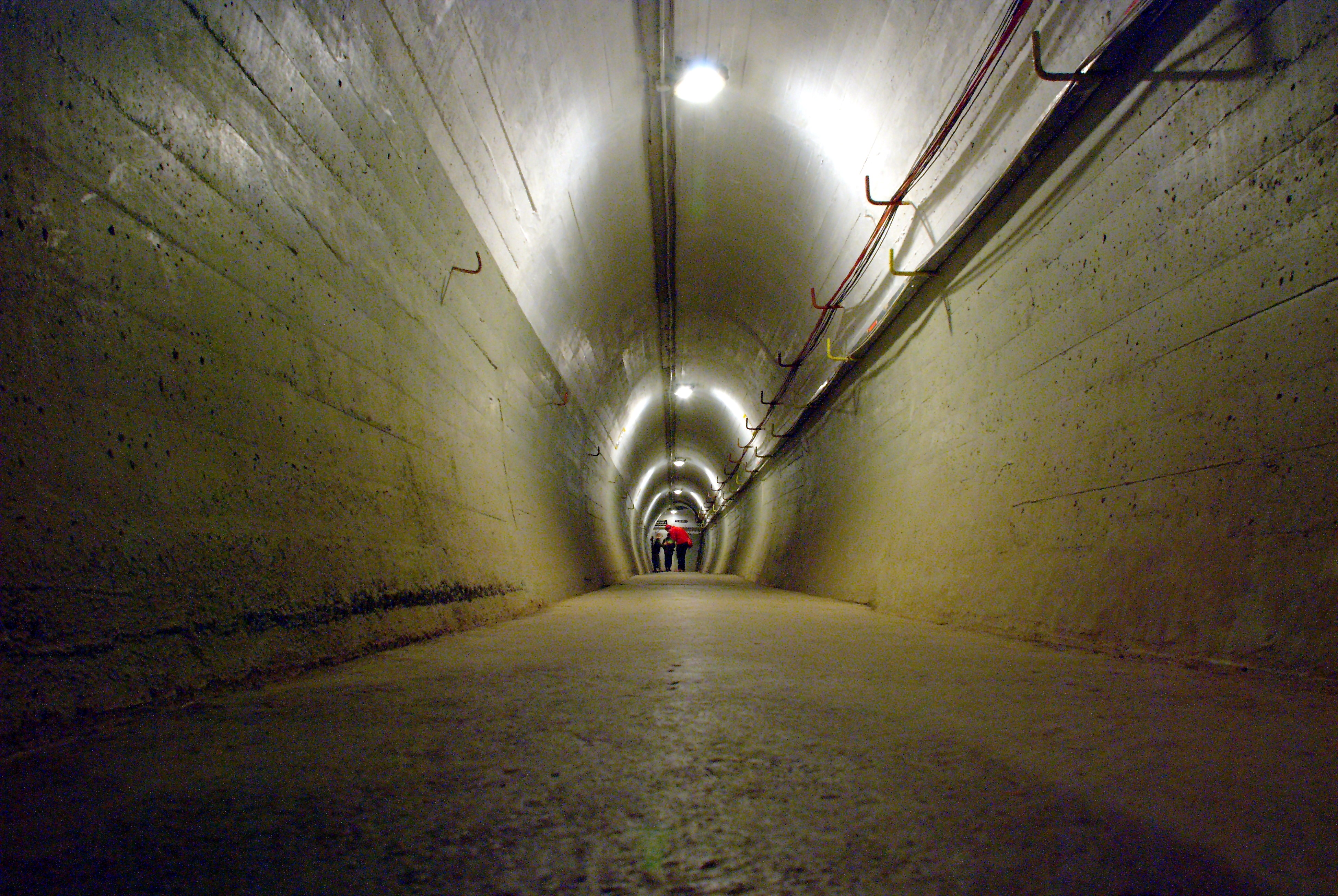 A tunnel in the Wrights Hill Fortress, New Zealand, taken on Anzac Day 2007.